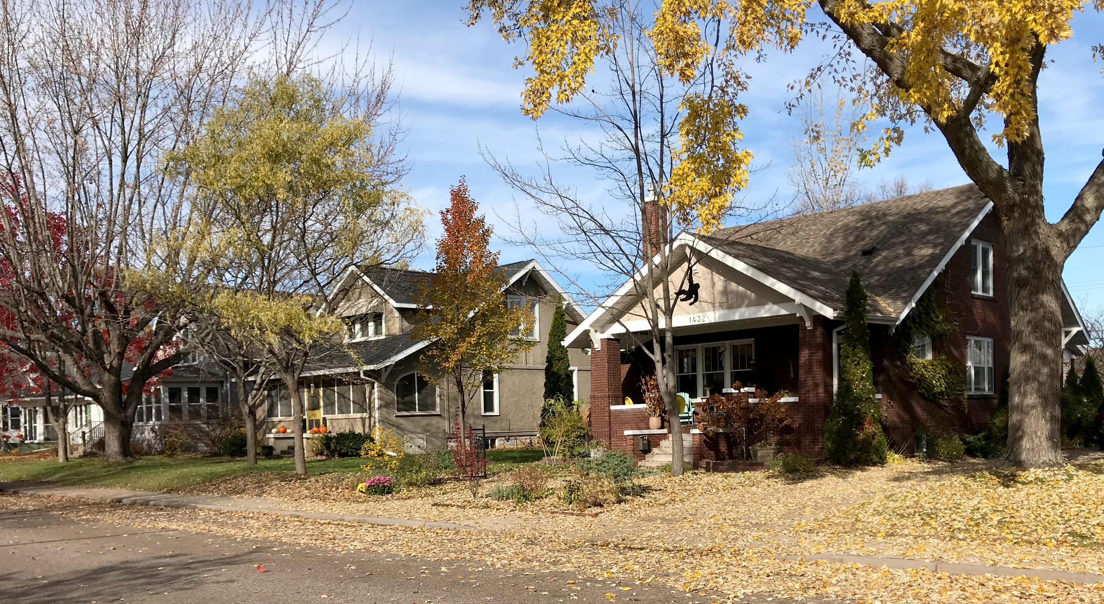 Emery Street Bungalow District in Eau Claire, WI, listed on the National Register of Historic Places